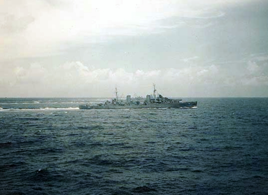 The Australian light cruiser HMAS Hobart exercising with a U.S. and Australian cruiser force, off Subic Bay, Philippine Islands, circa August 1945. The ship beyond Hobart is HMAS Shropshire .